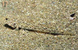 Picture of Pomatoschistus marmoratus